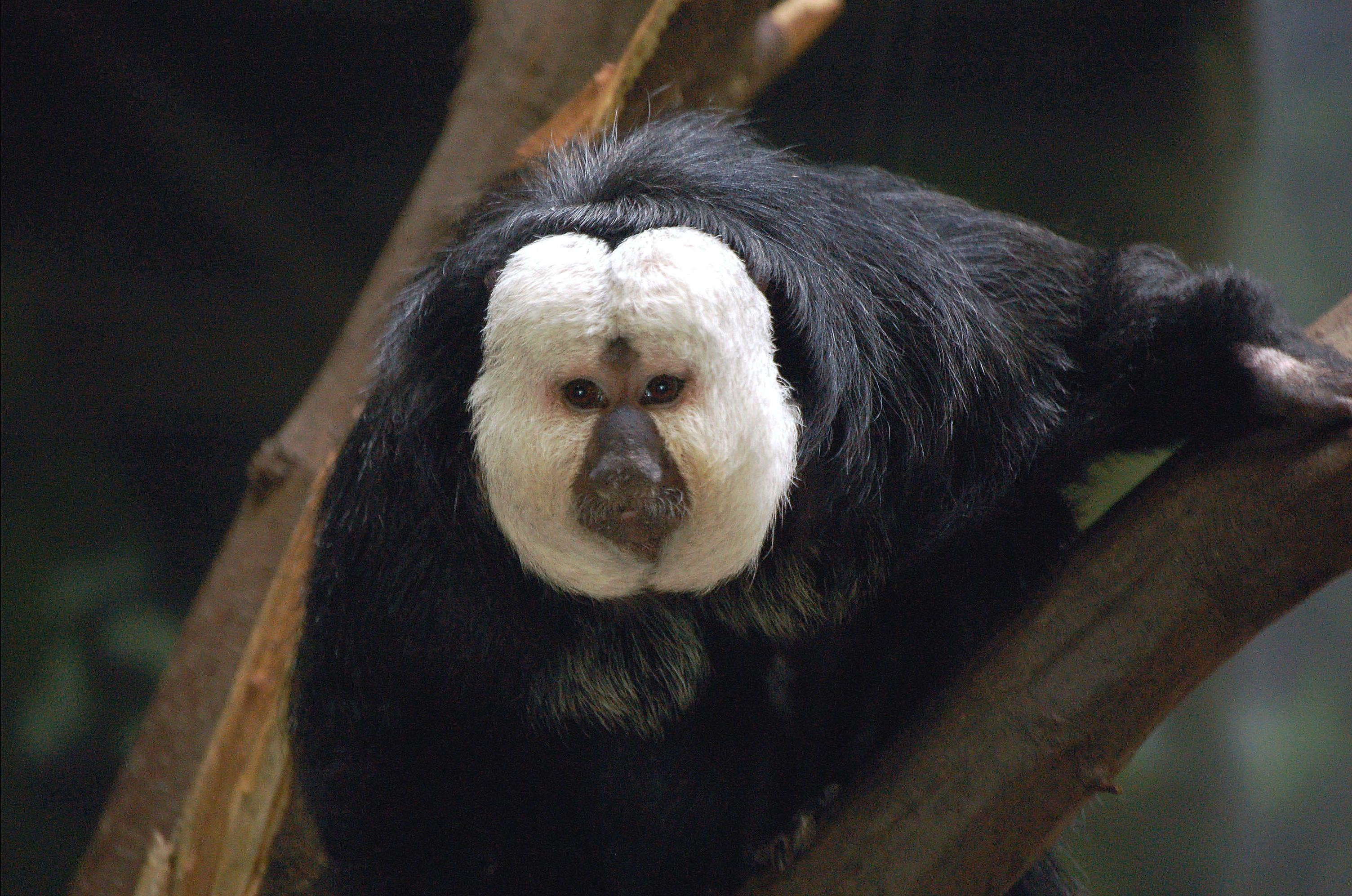 The White-faced Saki (Pithecia pithecia) Philadelphia Zoo